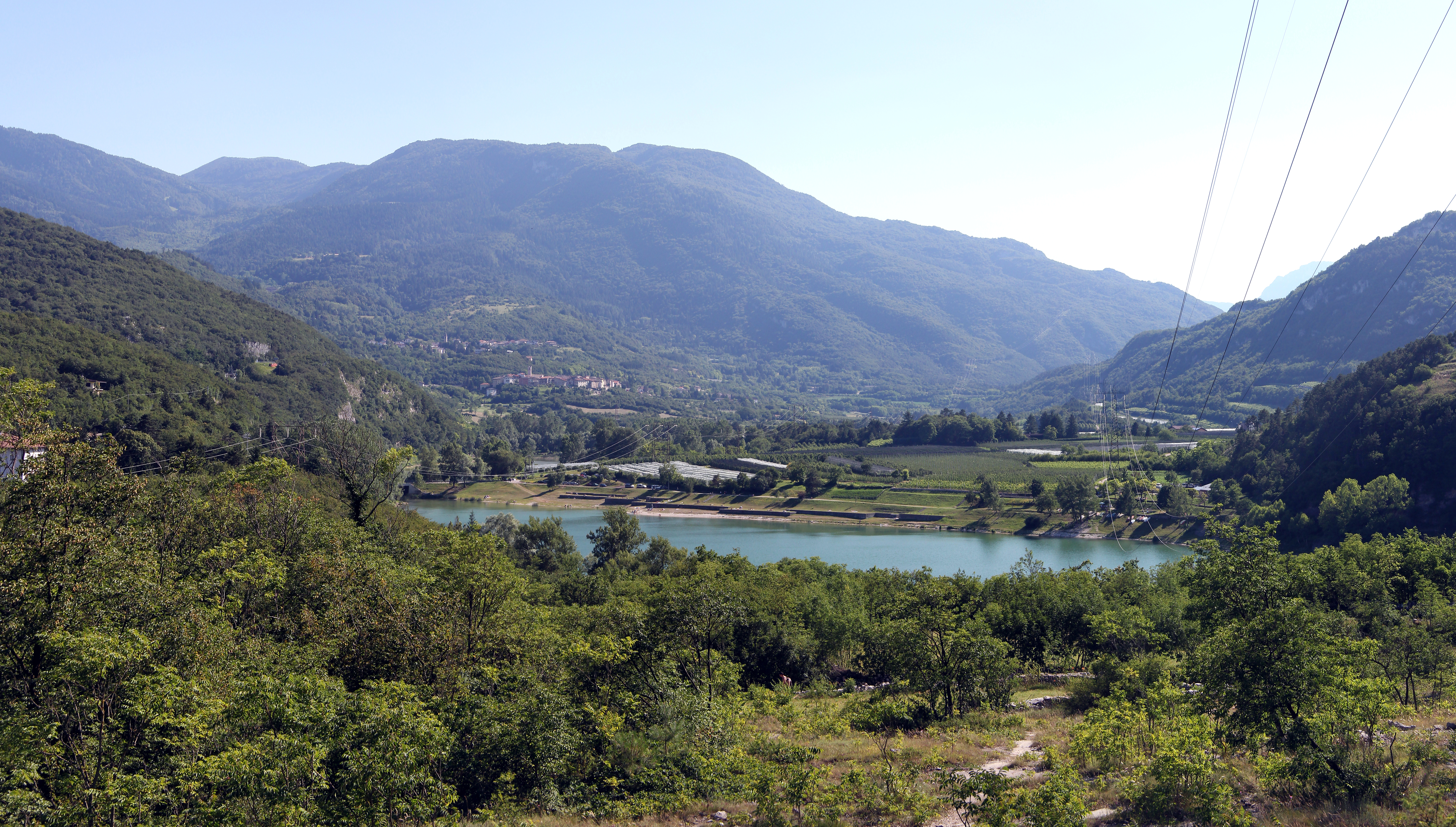 Terlago (Italy): lake Terlago from north-east. The villages (belonging to the municipality of Trento) of Baselga del Bondone and Vigolo Baselga can be seen in the distance .